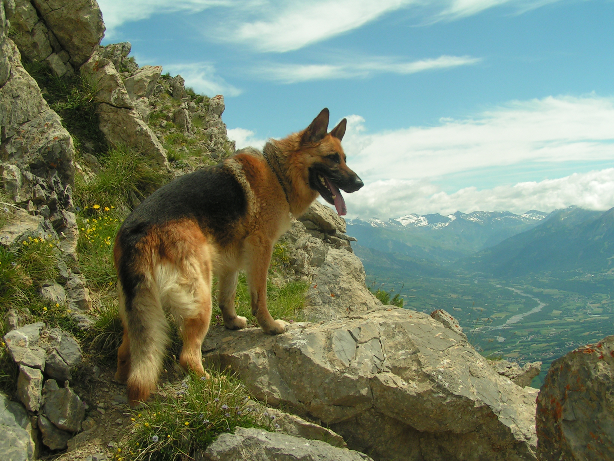 A German Shepherd dog on a mountain.